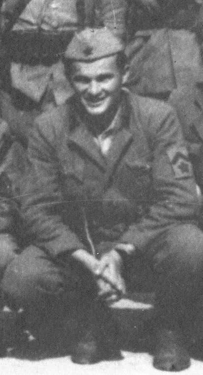 Franjo Knebl